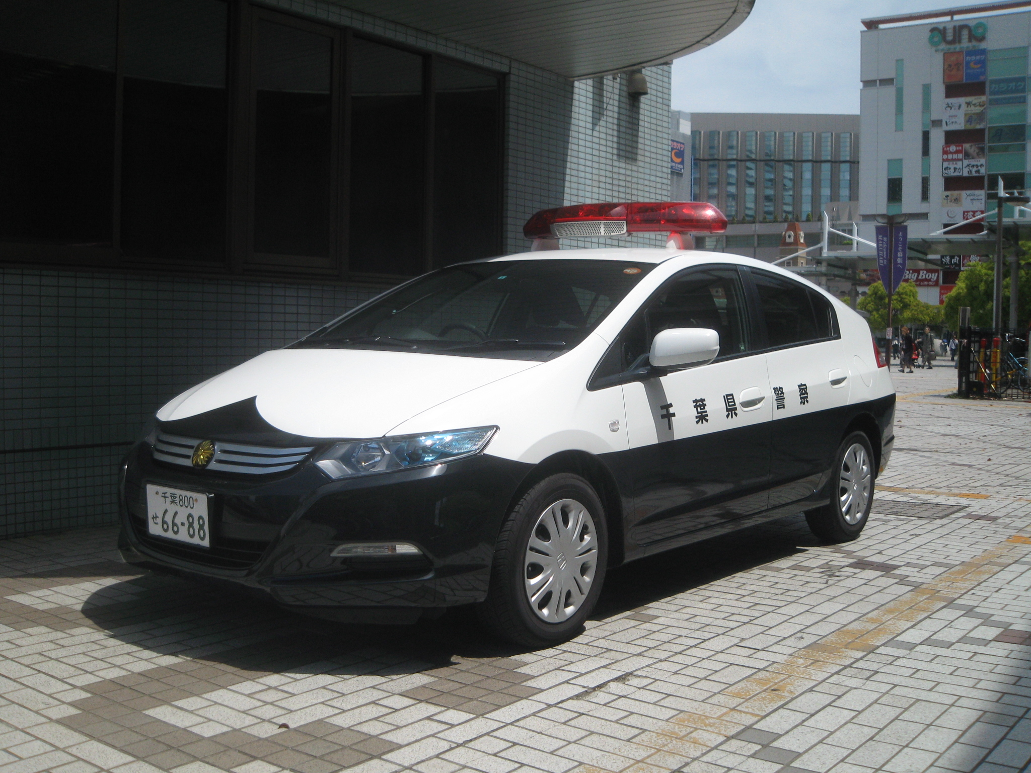 Honda Insight police car, seen in Chiba, Japan